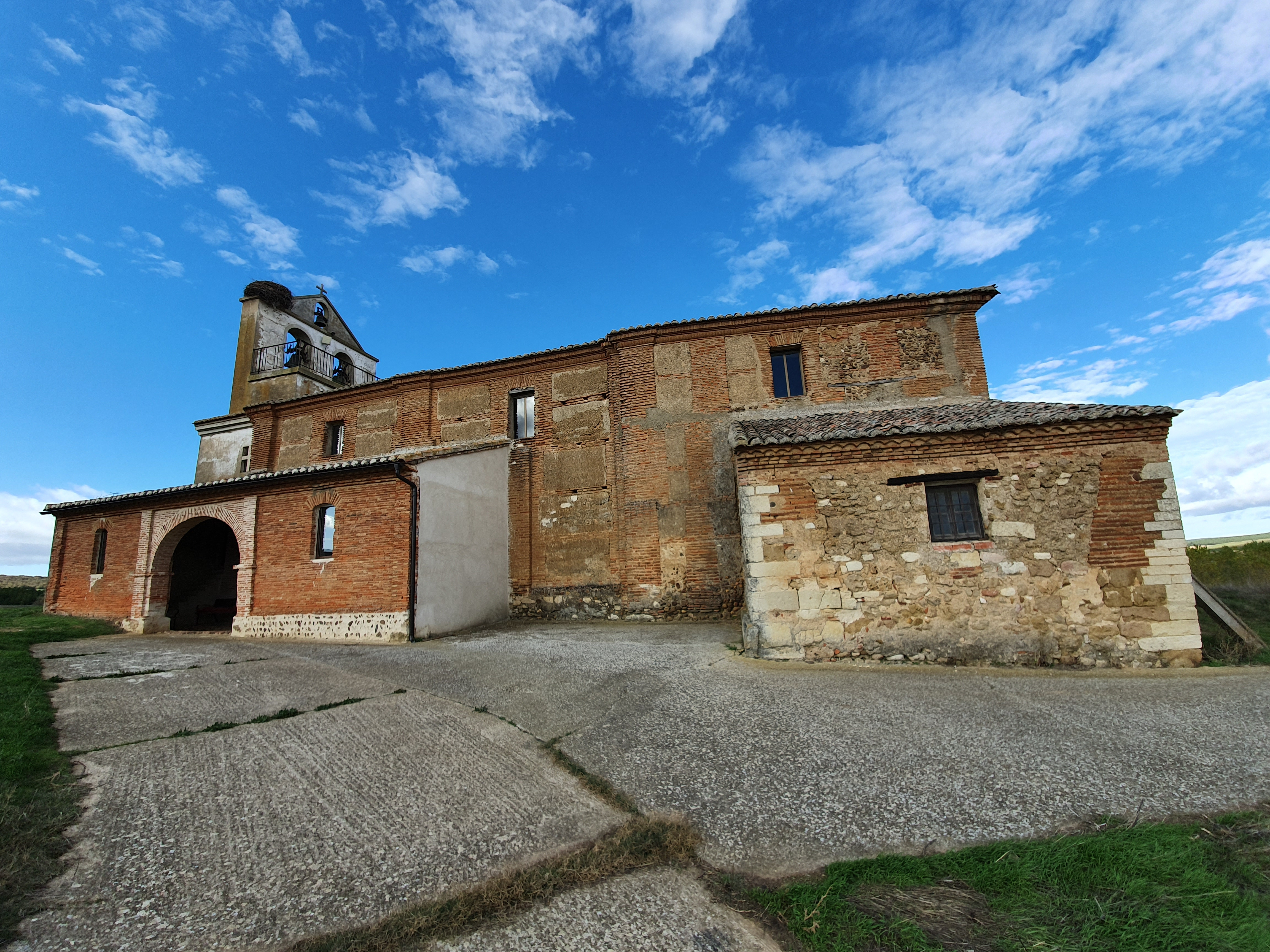 Interior of the Church of La Asunción in Villamelendro (Palencia, Castile and León).